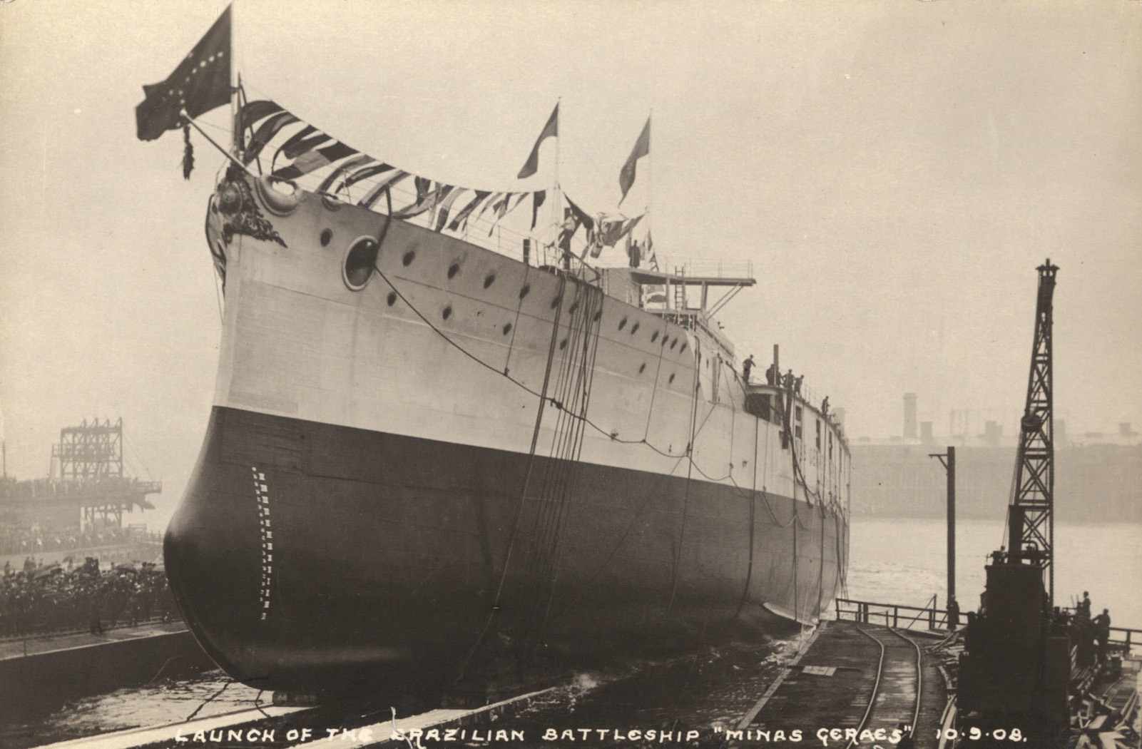 This shows the launch of the Brazilian battleship Minas Geraes on 10 September 1908.